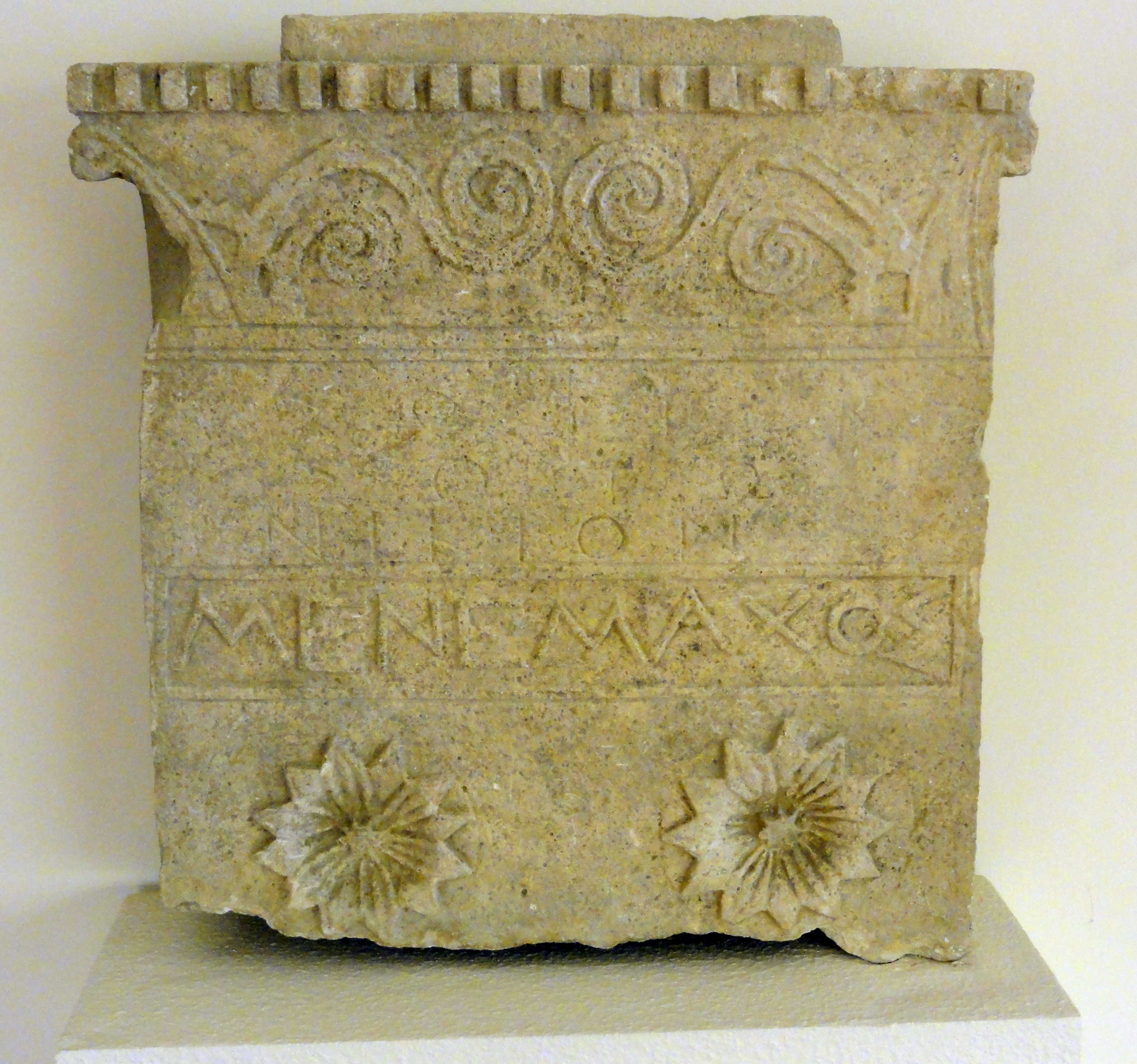 Tomb stele from Pastra (Pronnoi) with names inscribed of Menemachos, Sotion, Soto and Nikion. Dated to 3rd century BC.